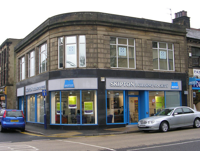 Skipton Building Society - Main Street